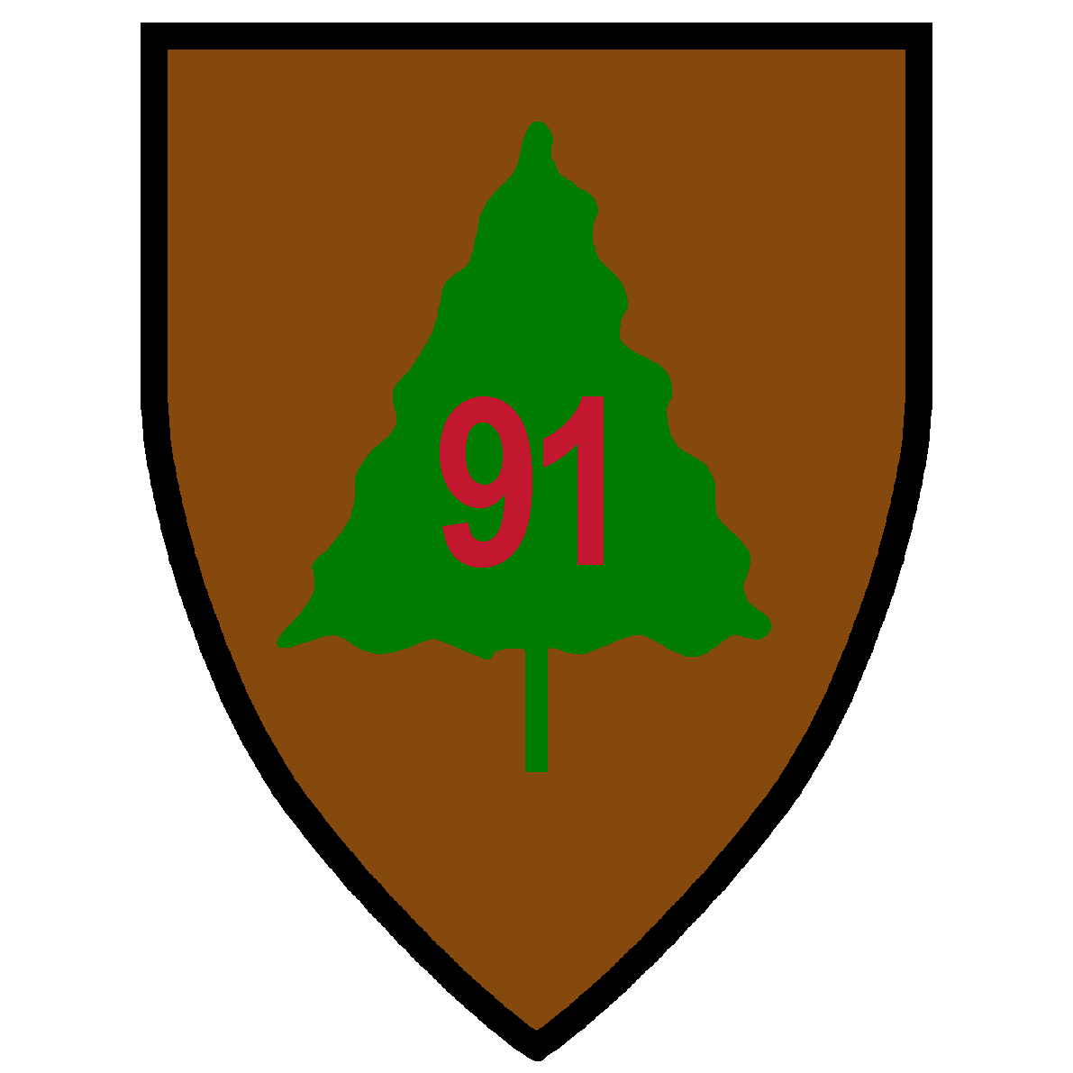 US Army 91st Infantry Division Shoulder Sleeve Insignia